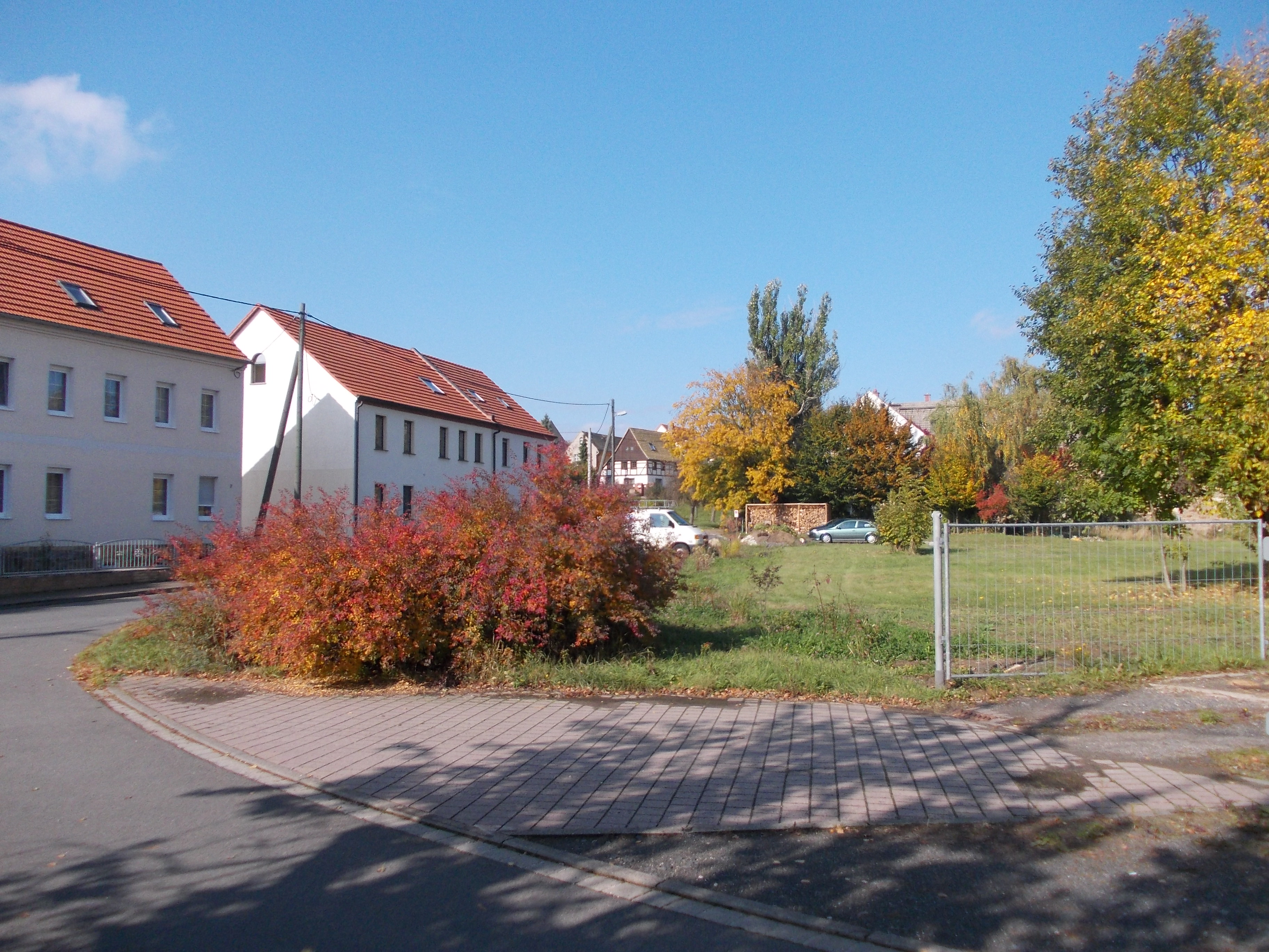 Village green in Grechwitz (Grimma, Leipzig district, Saxony)